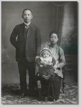 Picture of Su Bing and His Parents. from here